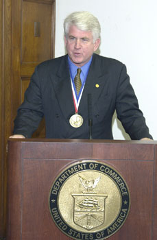 Robert Metcalfe (co-inventor of Ethernet and founder of 3Com) wearing the National Medal of Technology and speaking in a ceremony at the U.S. Department of Commerce.